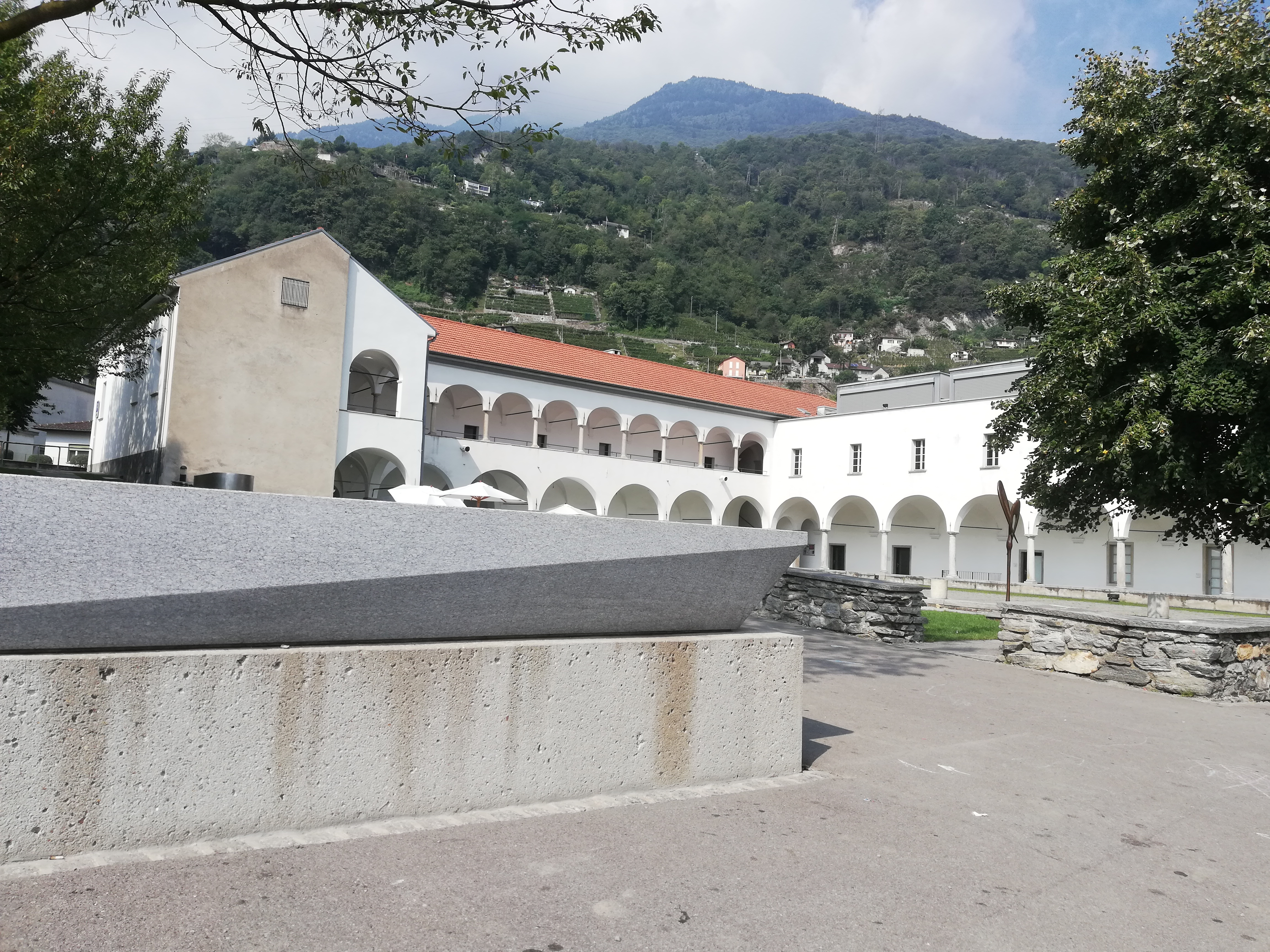 The Augustinian nun's convent in Monte Carasso, Switzerland, was abandoned during the Nineteenth century. During the 1980s, architect Luigi Snozzi created a project to revive the site through a contemporary architecture intervention.